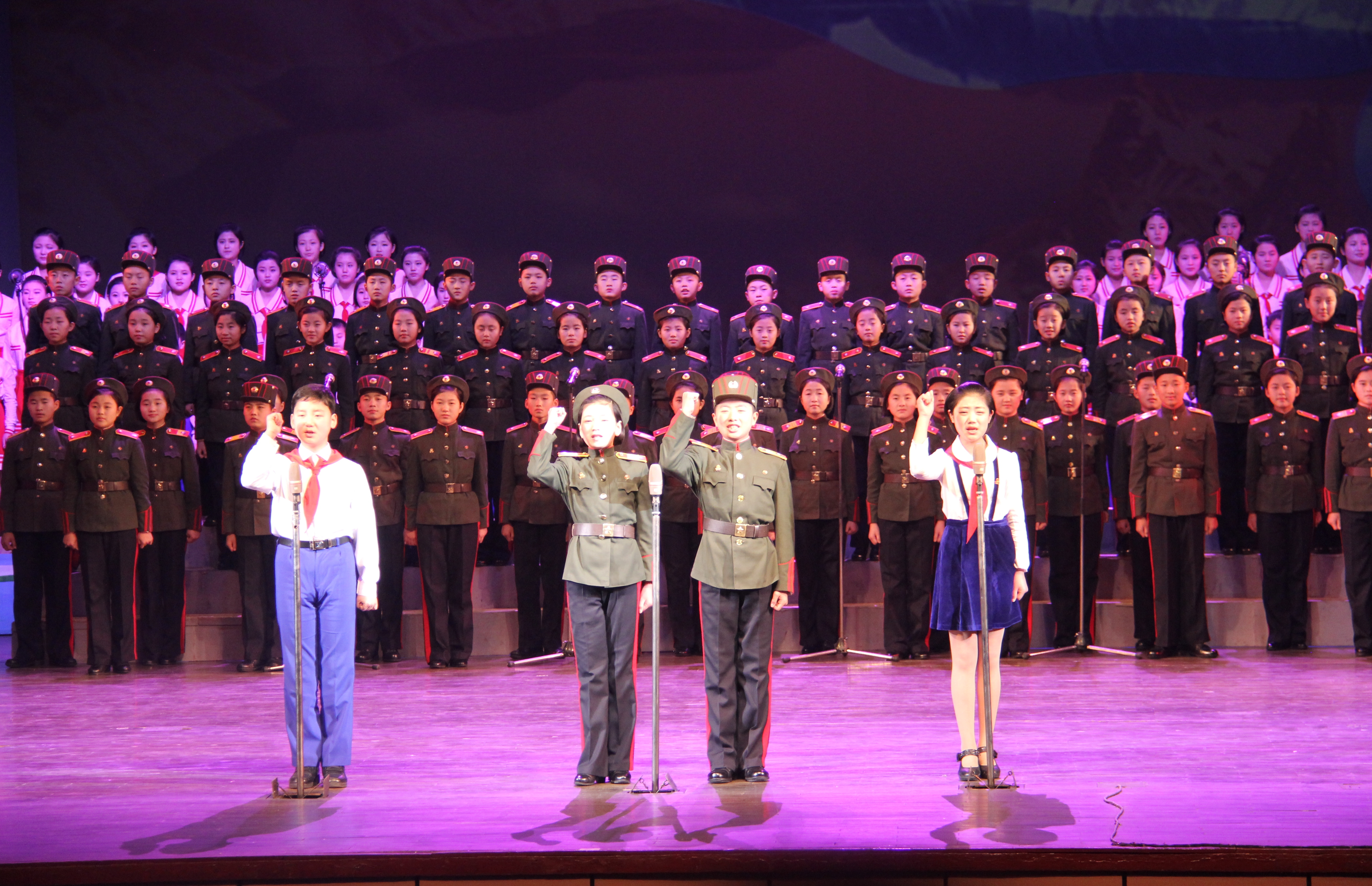 New Year's performance! They recounted all of 2013's important events.